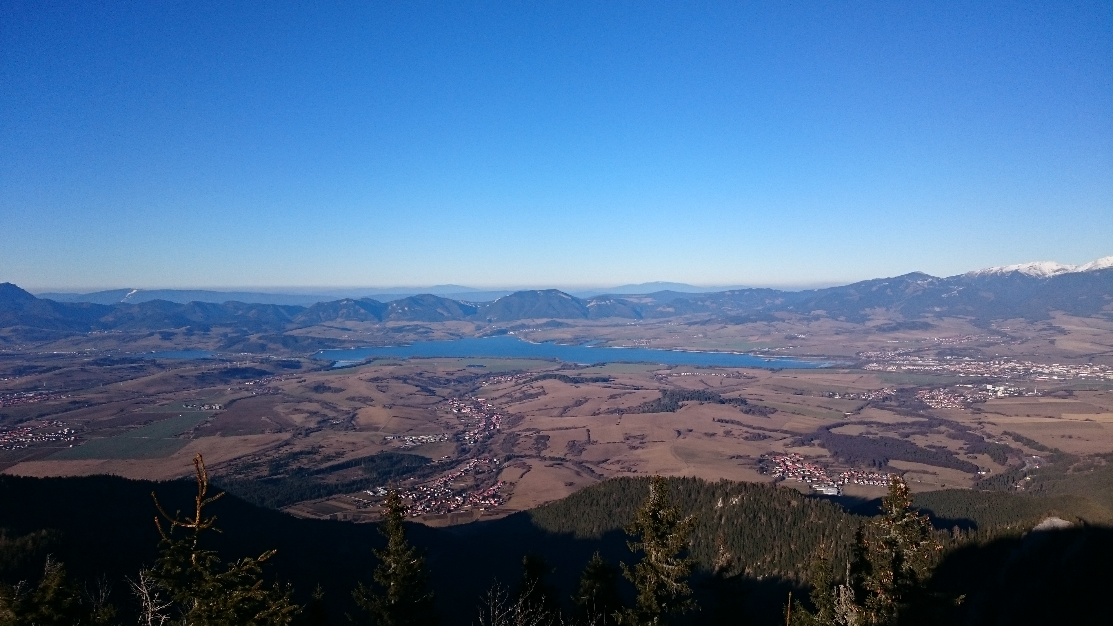 Central Liptov Valley, with Liptovská Mara dam in the centre. View from top of Siná.